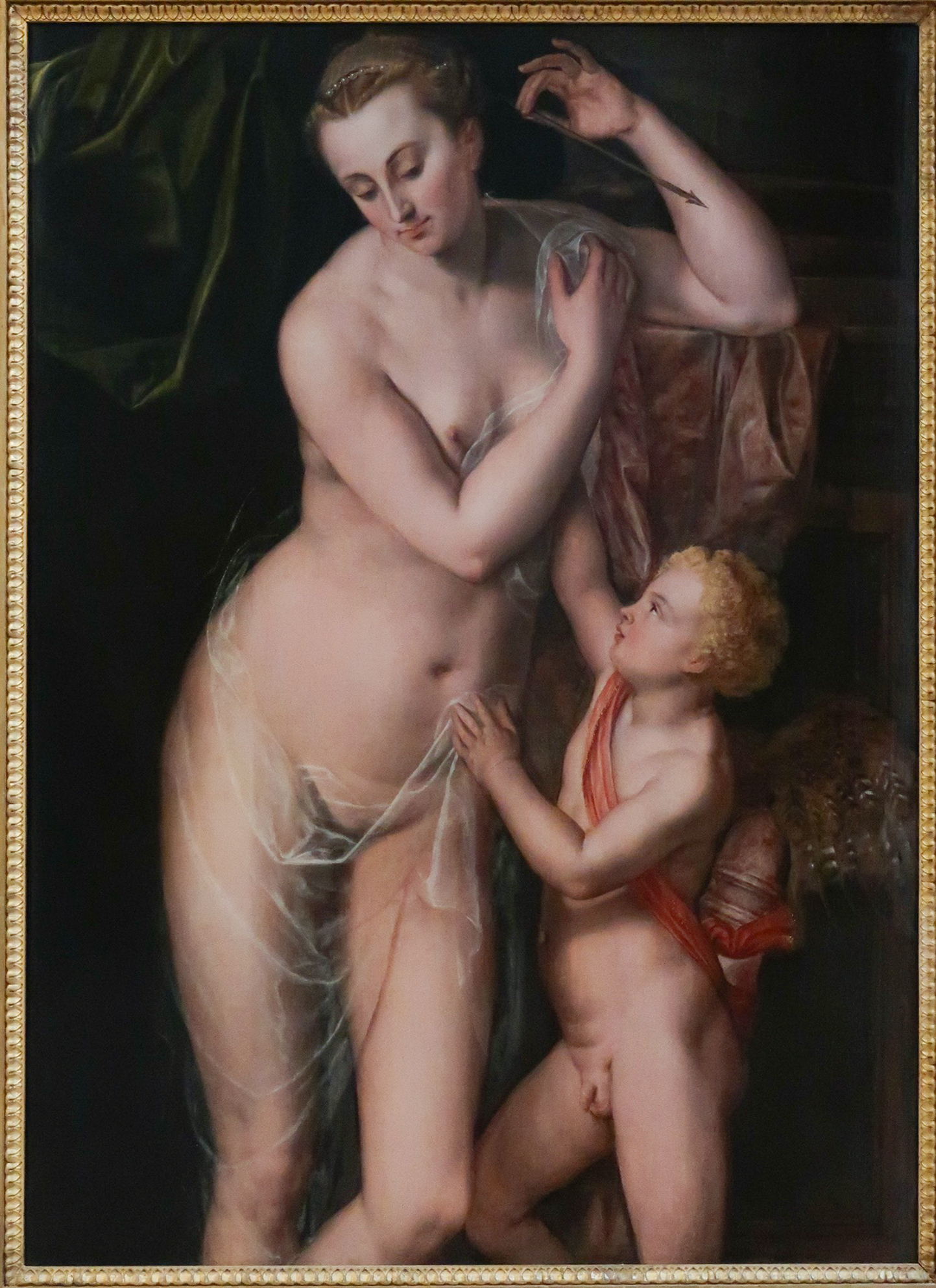 Anonymous Antwerpois. Venus and Love. Oil on wood, 16th century. Gift of the Society of Friends of the Arts, 1843. Musée des Beaux Arts de La Rochelle